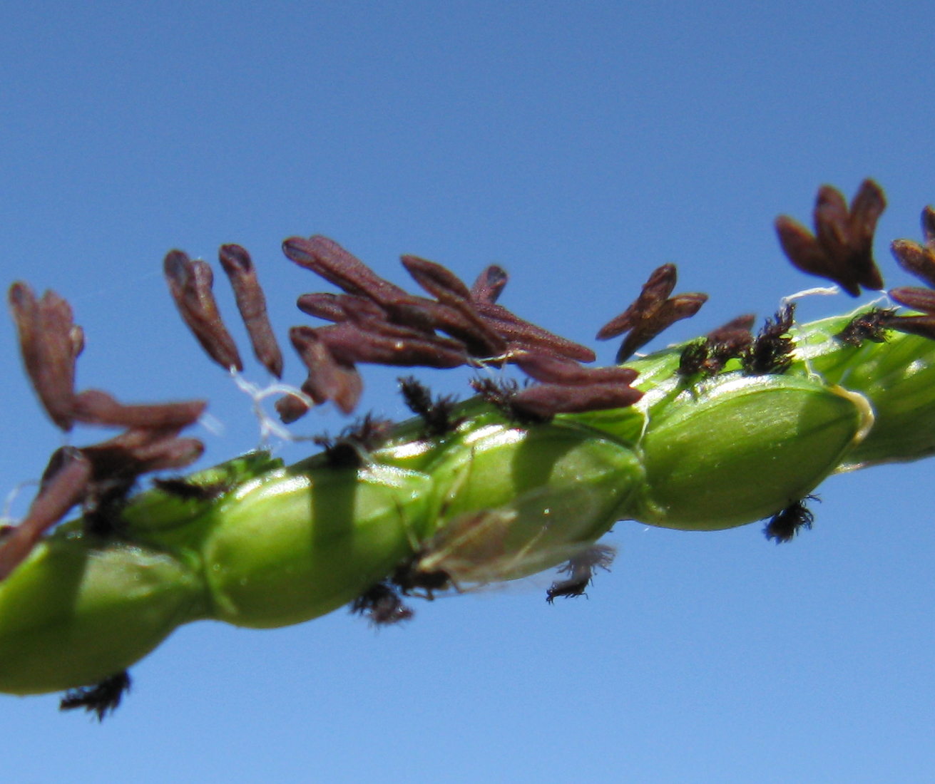 Spikelets occur in 2 rows and are 2-flowered, 2.7-4 mm long, hairless, elliptical in shape and shiny. Lower glume is absent. Upper glume is as long as the spikelet and similar in texture to the lower lemma.